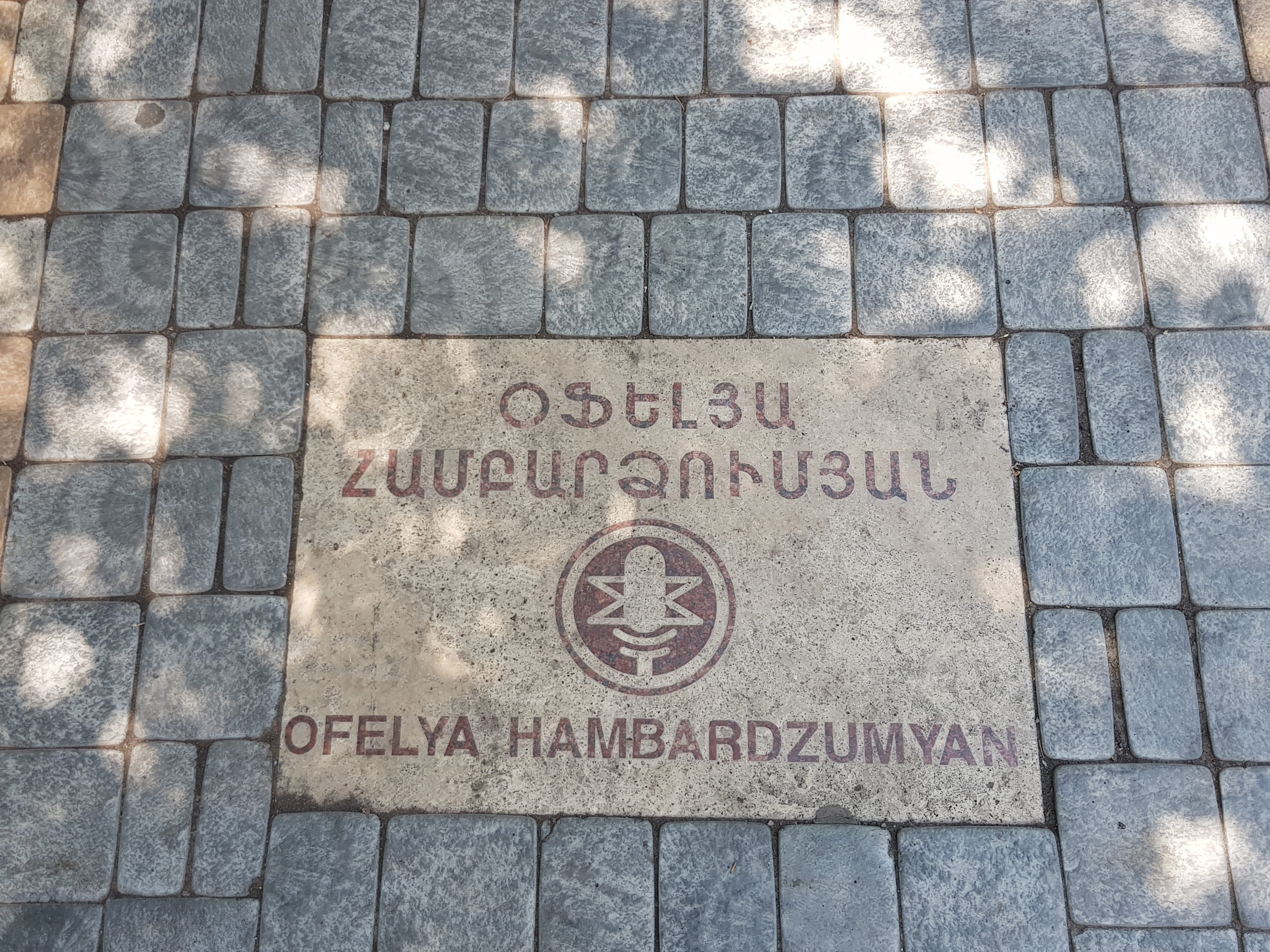 Alley of Devotees, Yerevan